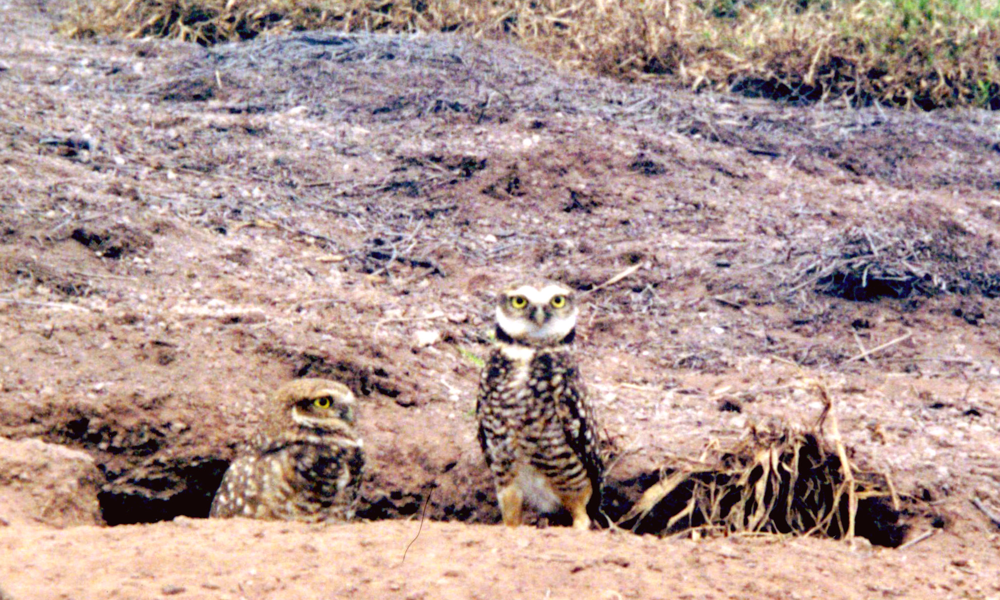 Endemic to Clarion Island, Mexico. Clarion Burrowing Owl